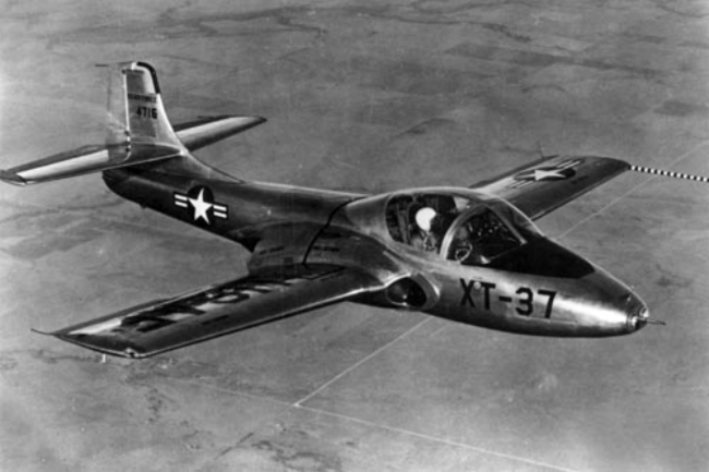 The U.S. Air Force prototype Cessna XT-37-CE Tweety Bird (s/n 54-716), the first originally designed USAF jet trainer. It first flew in 12 October 1954.